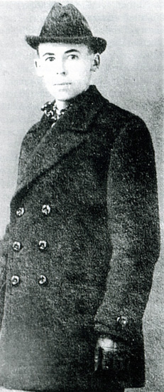 Bruno Topff (1886-1920)